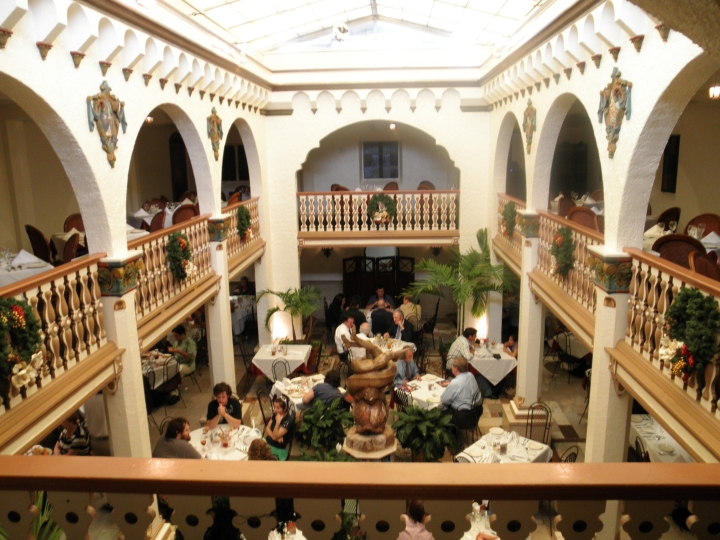 Indoor courtyard dining room of Columbia Restaurant, Ybor City, Tampa, Florida